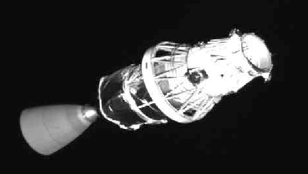 The spent Delta-K second stage of a Delta II rocket photographed in orbit by the XSS-10 satellite.